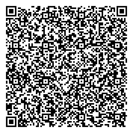 Magnet link in QR Code